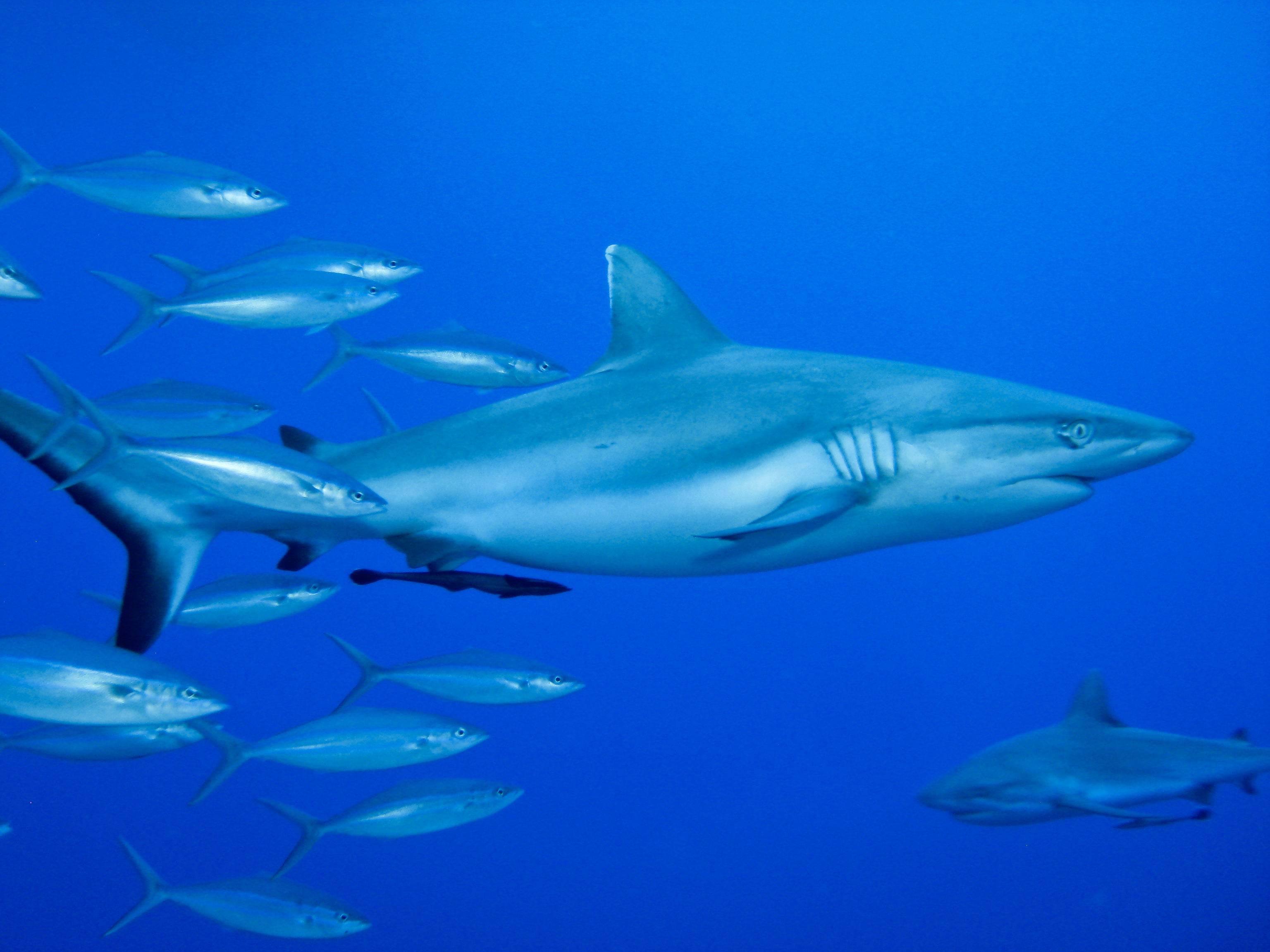 Grey reef shark (Carcharhinus amblyrhynchos) off Papua New Guinea